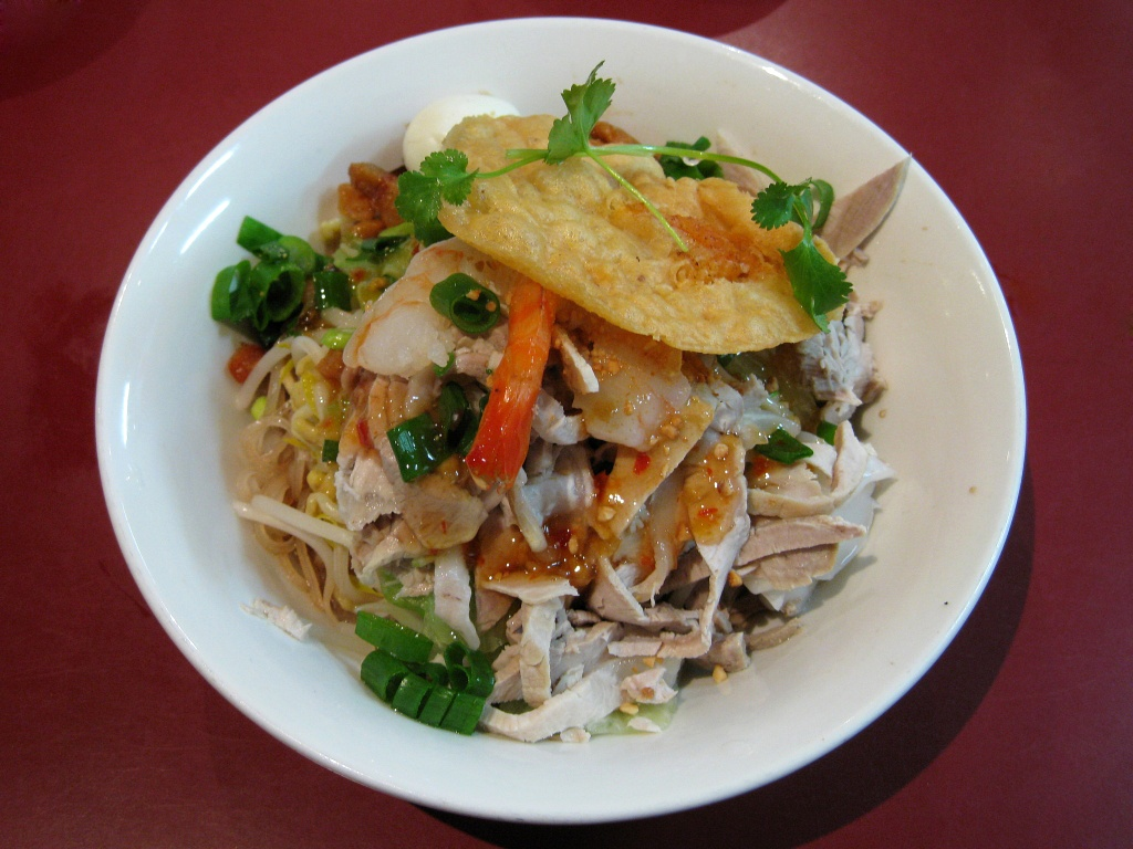 Vietnamese dry rice noodles (hu tieu kho) with pork, squid, prawn and quail egg from Phu-Vinh Noodle Shop (93 Hopkins Street) in Footscray, a suburb in the western suburbs of Melbourne, Victoria, Australia.